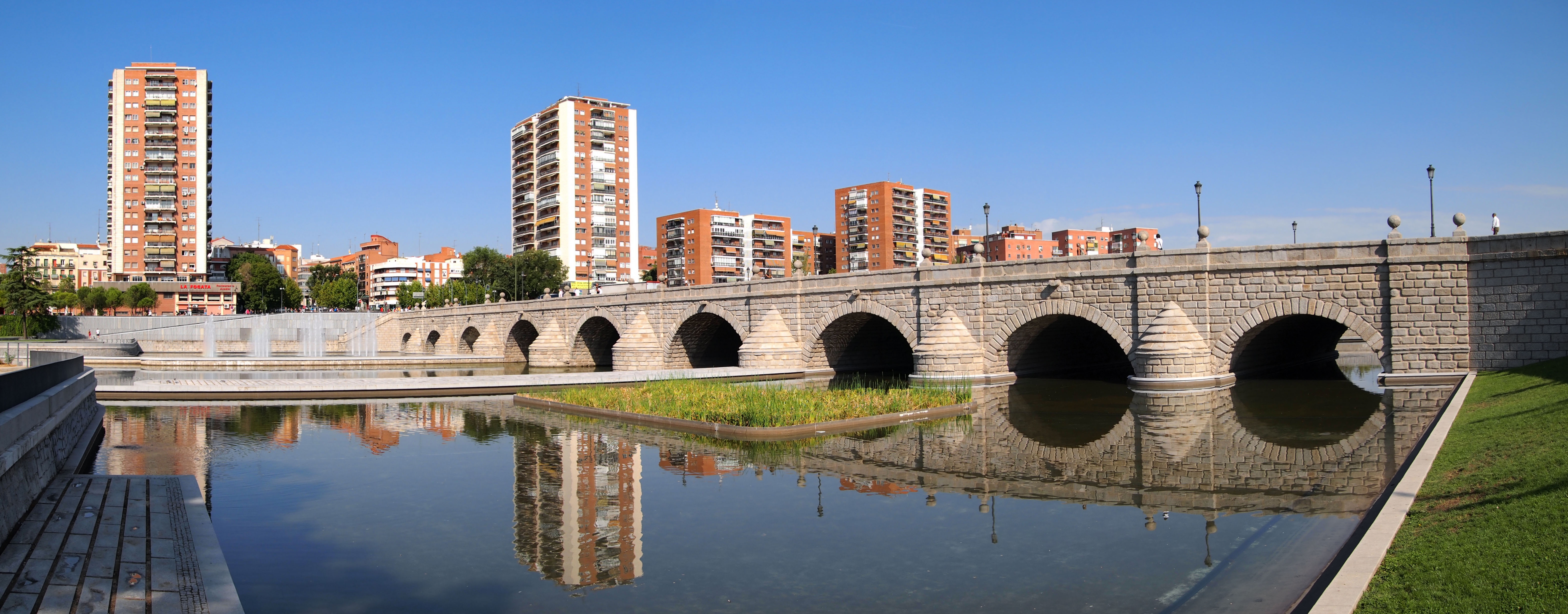 Segovia Bridge and multi-storey buildings in Madrid. This photograph was taken with an Olympus E-PL1